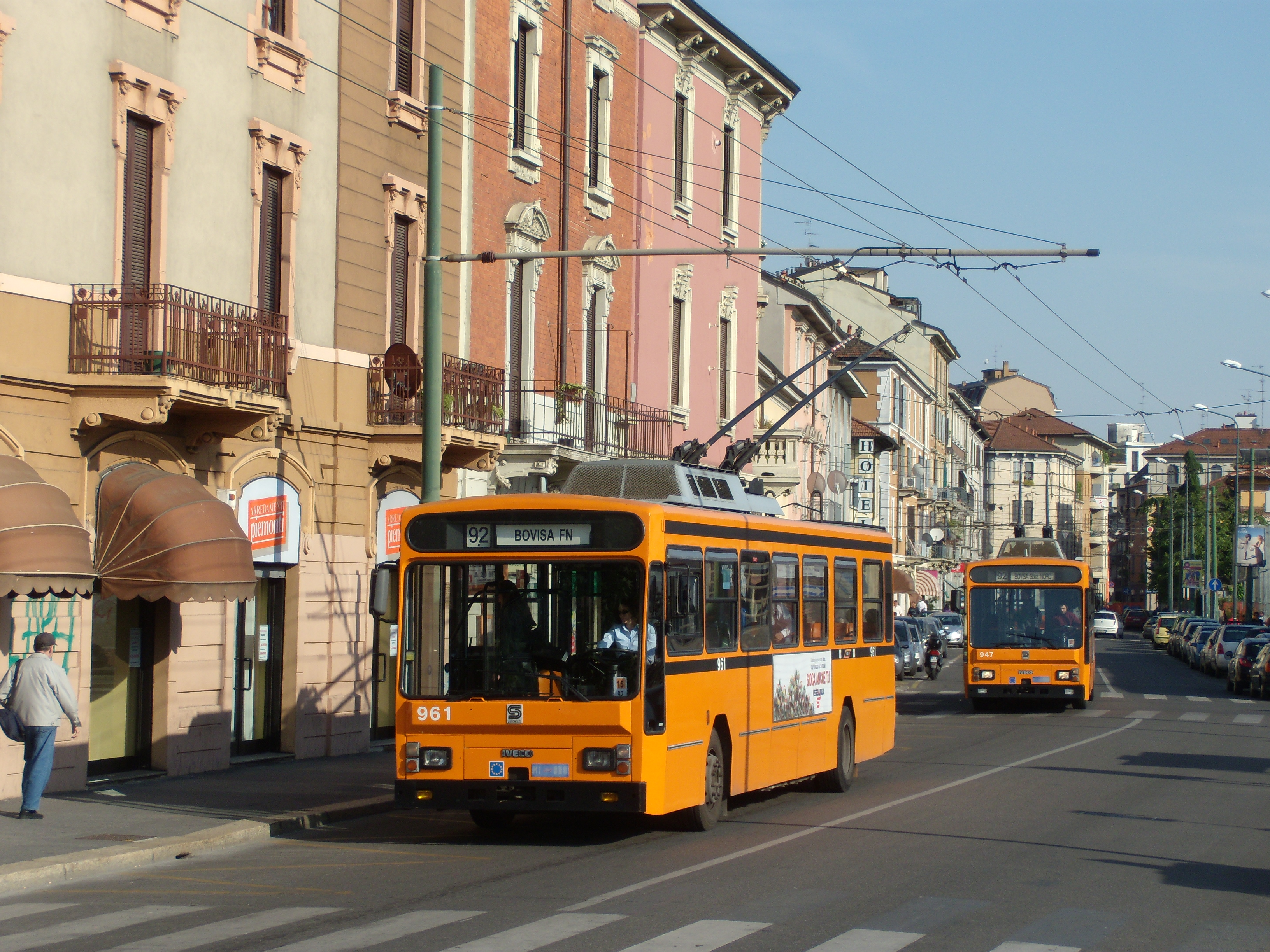 Milano trolleybuses 961 and 947, bound for Bovisa FNM station, on route 92